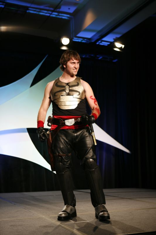 Photo by Scott Ruether. Read more at the Official Celebration IV blog. Costumes at Star Wars Celebration IV in 2007 at the Los Angeles Convention Center in Los Angeles.